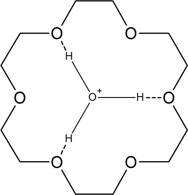 Structural formula of the hydronium-18-crown-6 complex